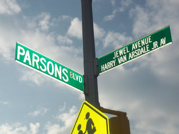 Corner of Parsons Blvd and Jewel Ave